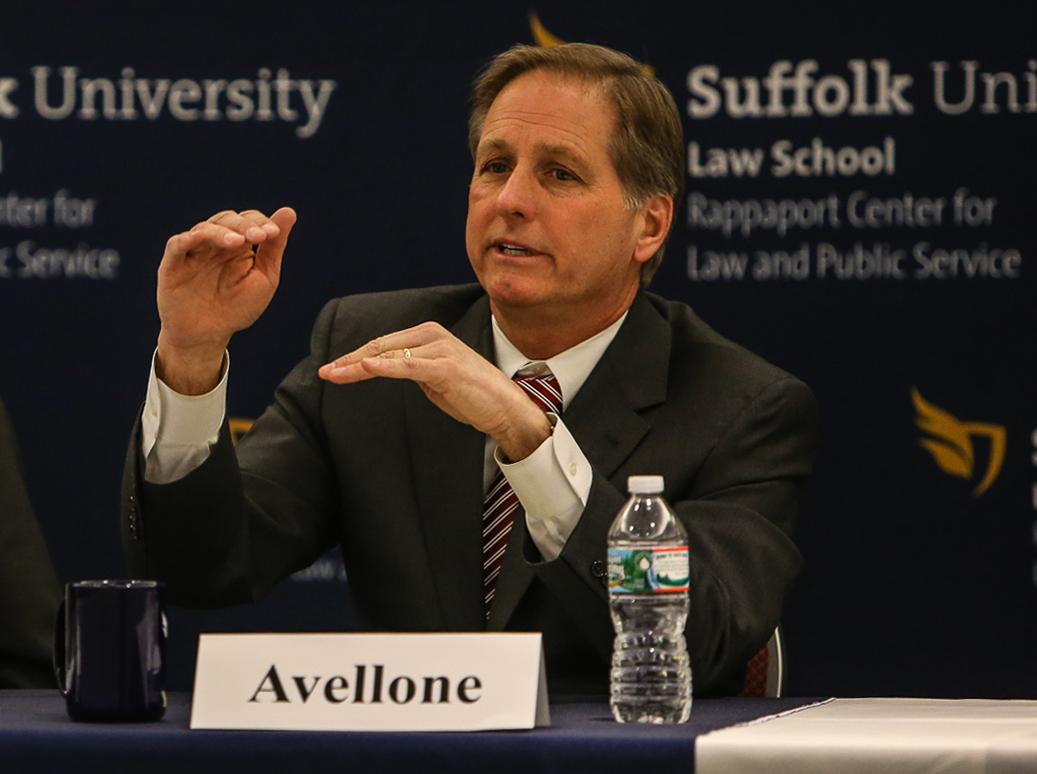 Massachusetts candidate for governor Joe Avellone at the Rappaport Center for Law and Public Service at Suffolk Law School onJan. 21, 2014.